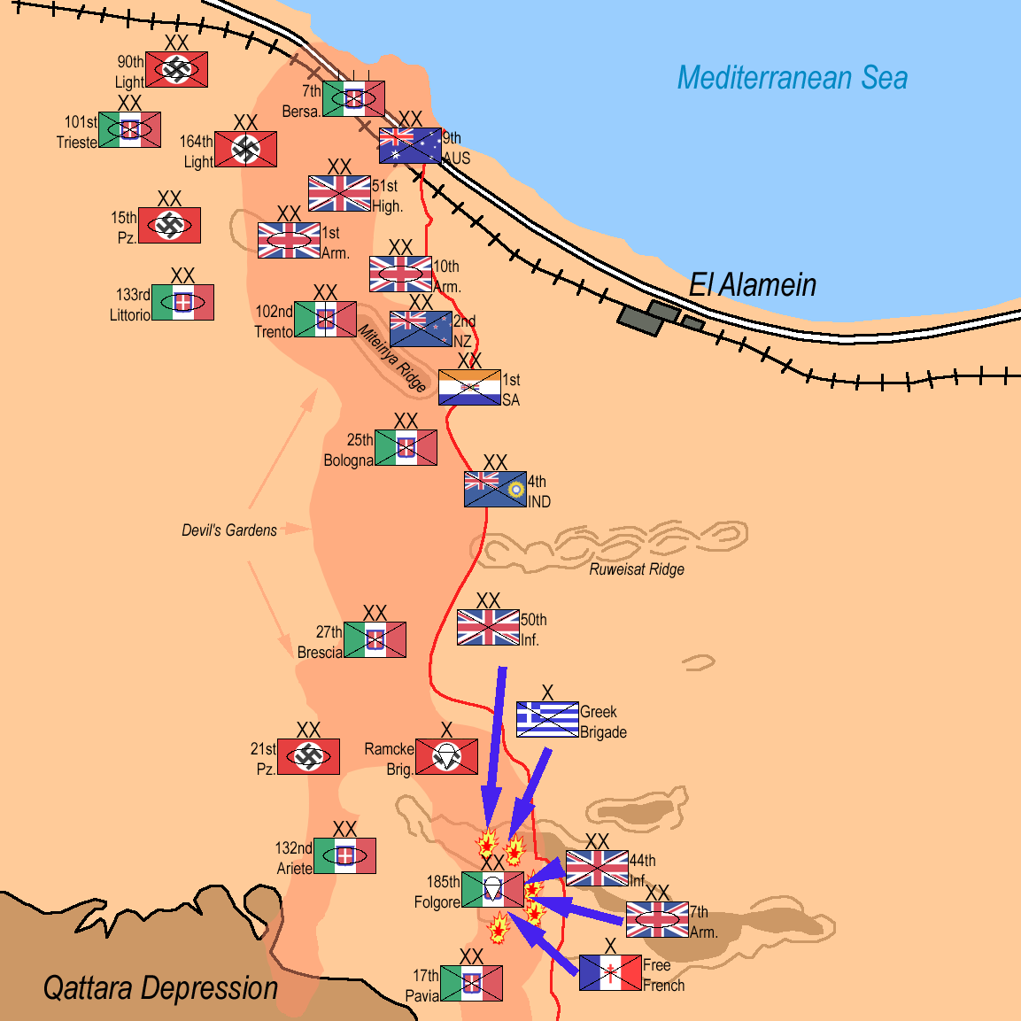 Second Battle of El Alamein: 7th Armoured Division, 44th Infantry Division, 50th Infantry Division along with the Greek 1st Infantry Brigade and the Free French Brigade attack Folgore Parachutist Division from three directions: 10:30pm- October 25th, 1942 until 3am- October 26th, 1942.